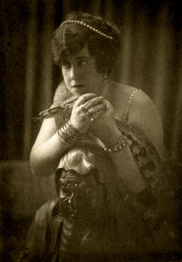 Aimee Crocker circa 1890